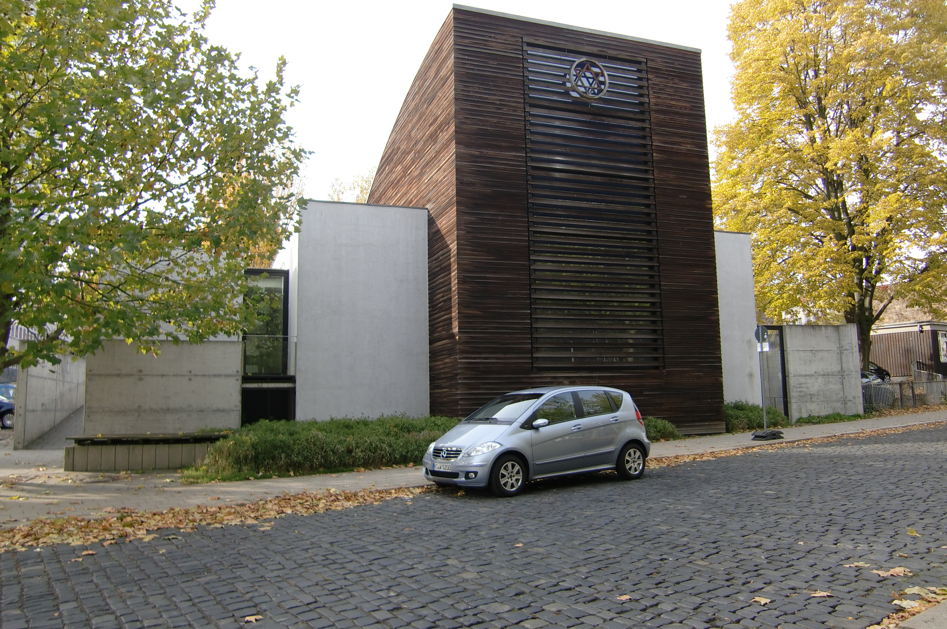 Synagoque kassel